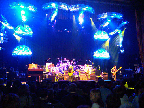 The Allman Brothers Band performing at the United Palace Theatre in New York City